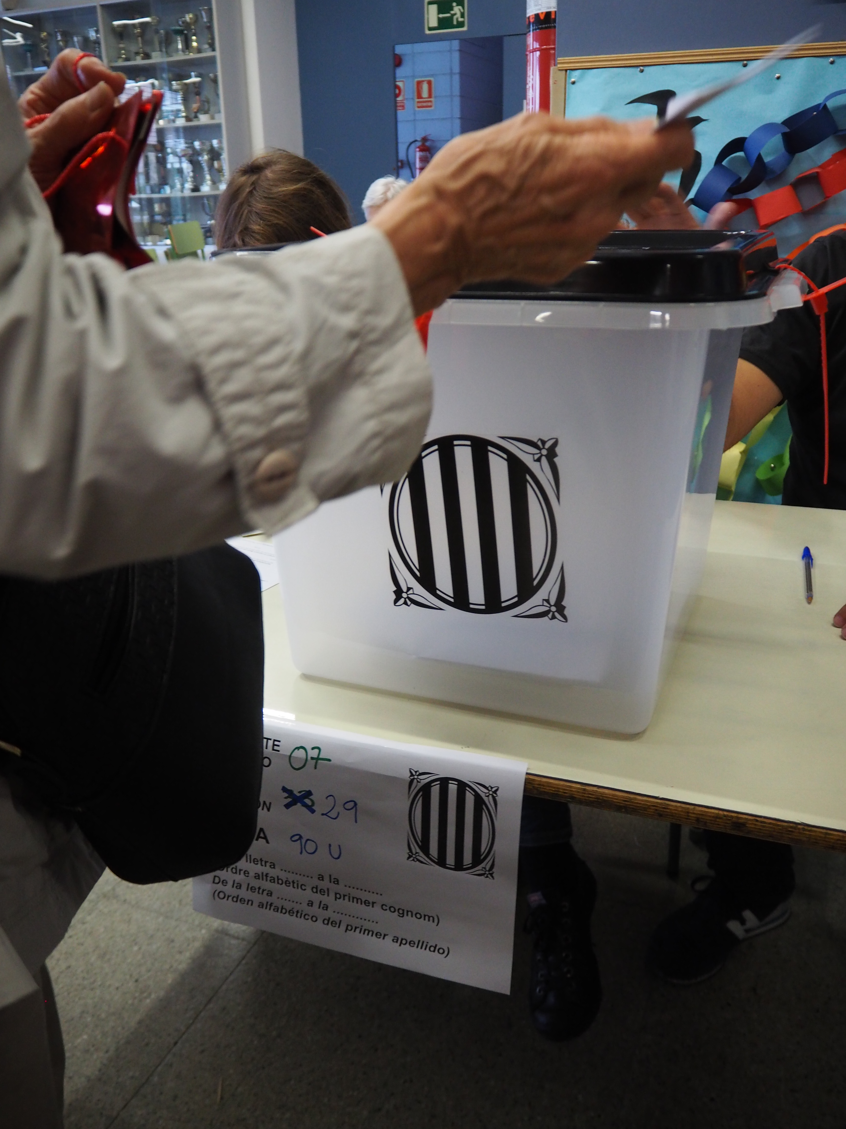 A person votes in the Catalan independence referendum in a polling station in Guinardó, Barcelona Wikipedia: Catalan independence referendum, 2017 See also category: 2017 Catalan Independence Referendum in Barcelona.